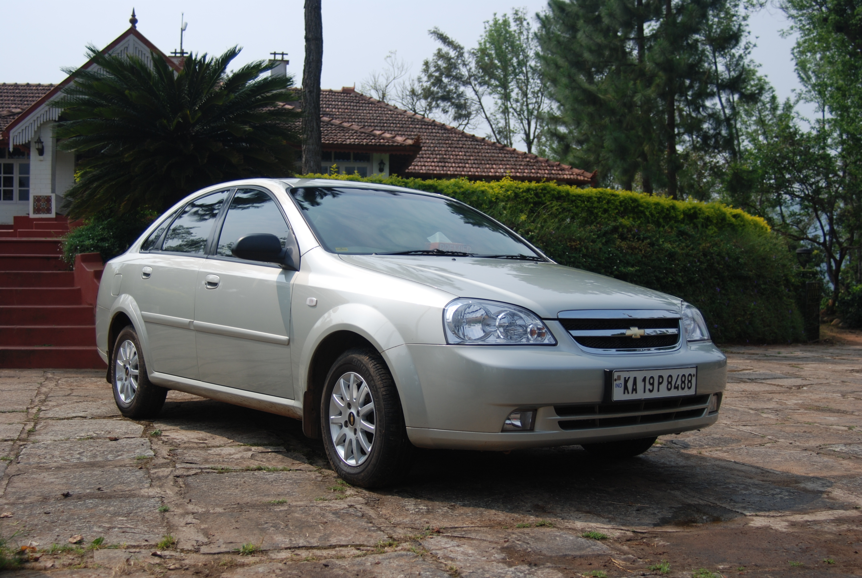 2006 Chevrolet Optra, 1.6 Elite, Indian edition